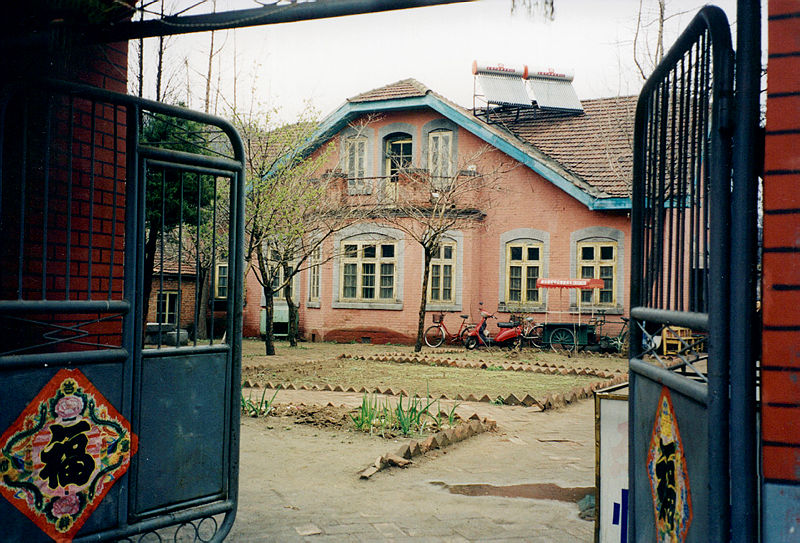 Karen Gormsen's House